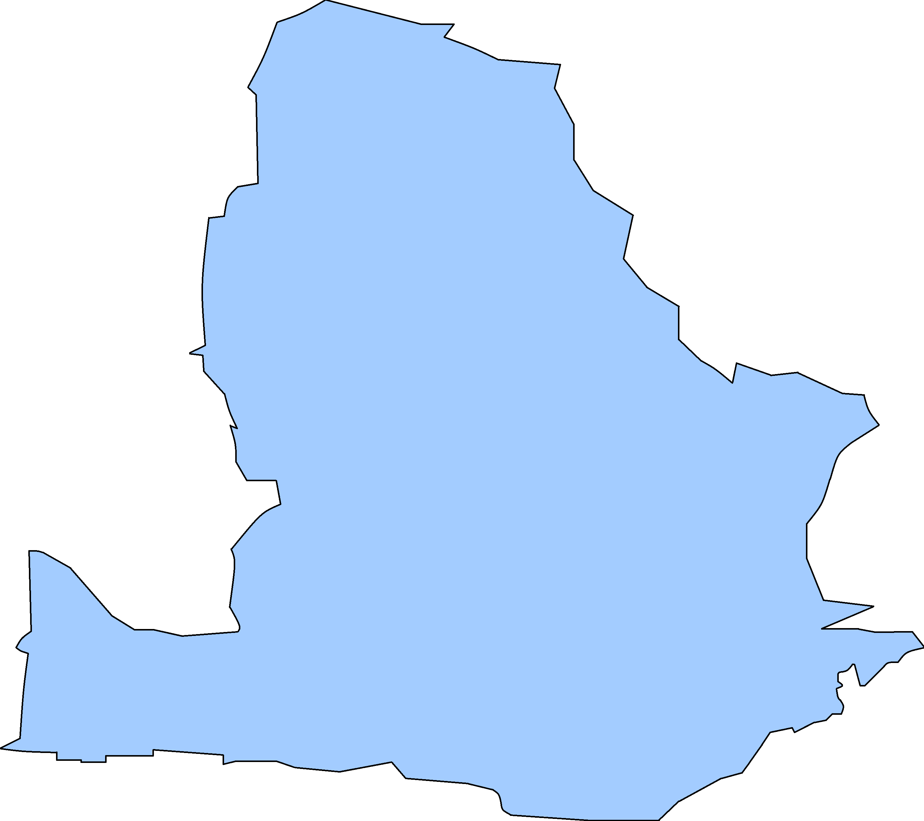 Shape of Xiaqiu Town.